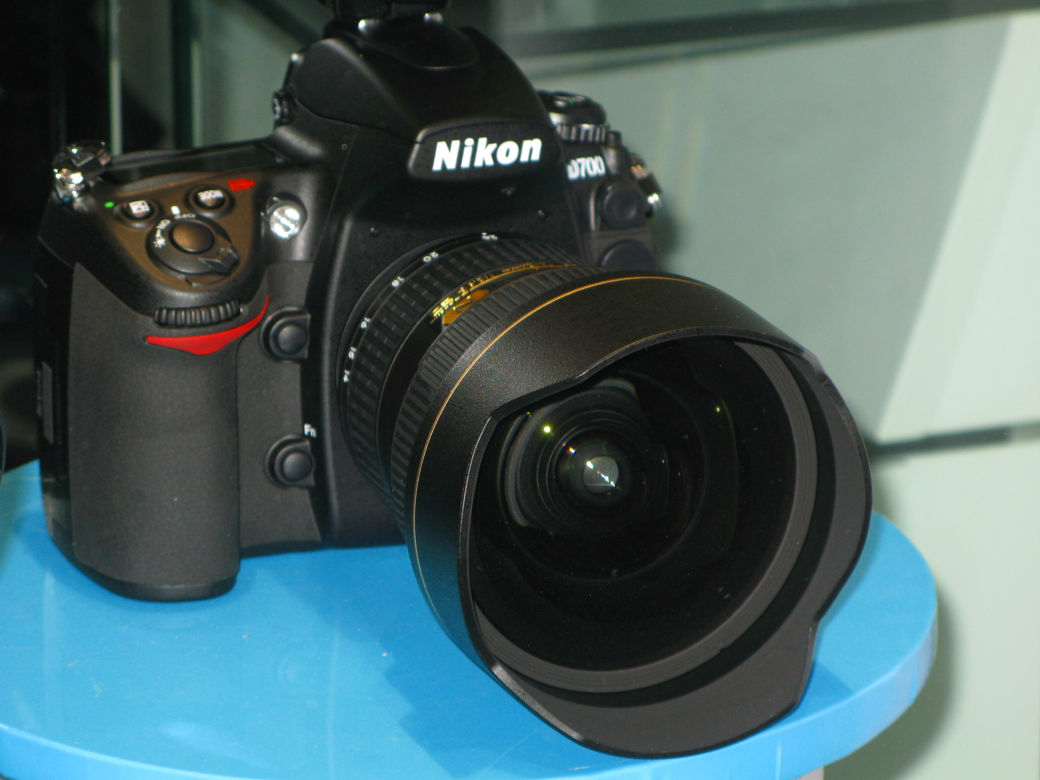 Nikon D700